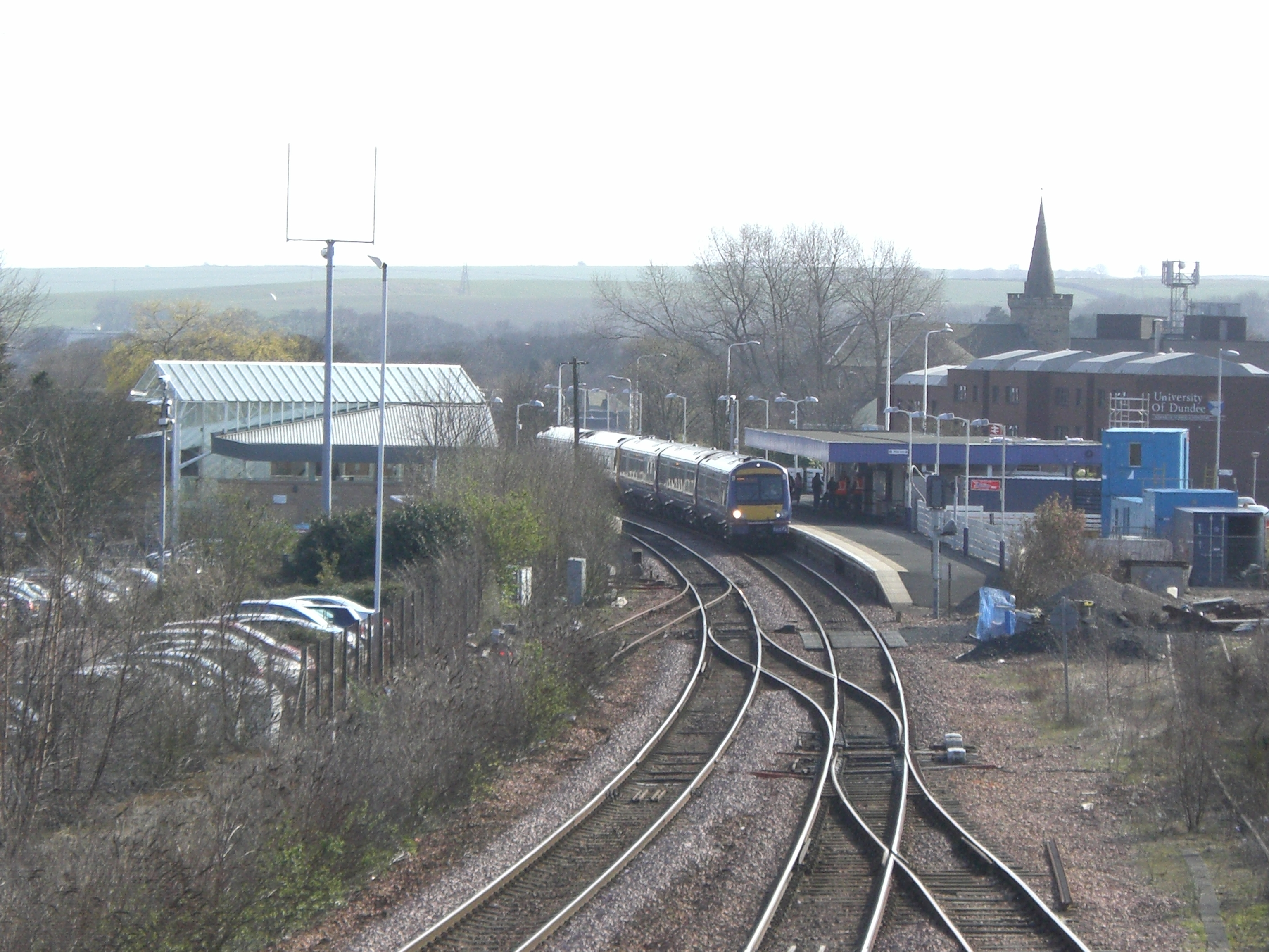 Kirkcaldy Railway Station from Bennochy Road